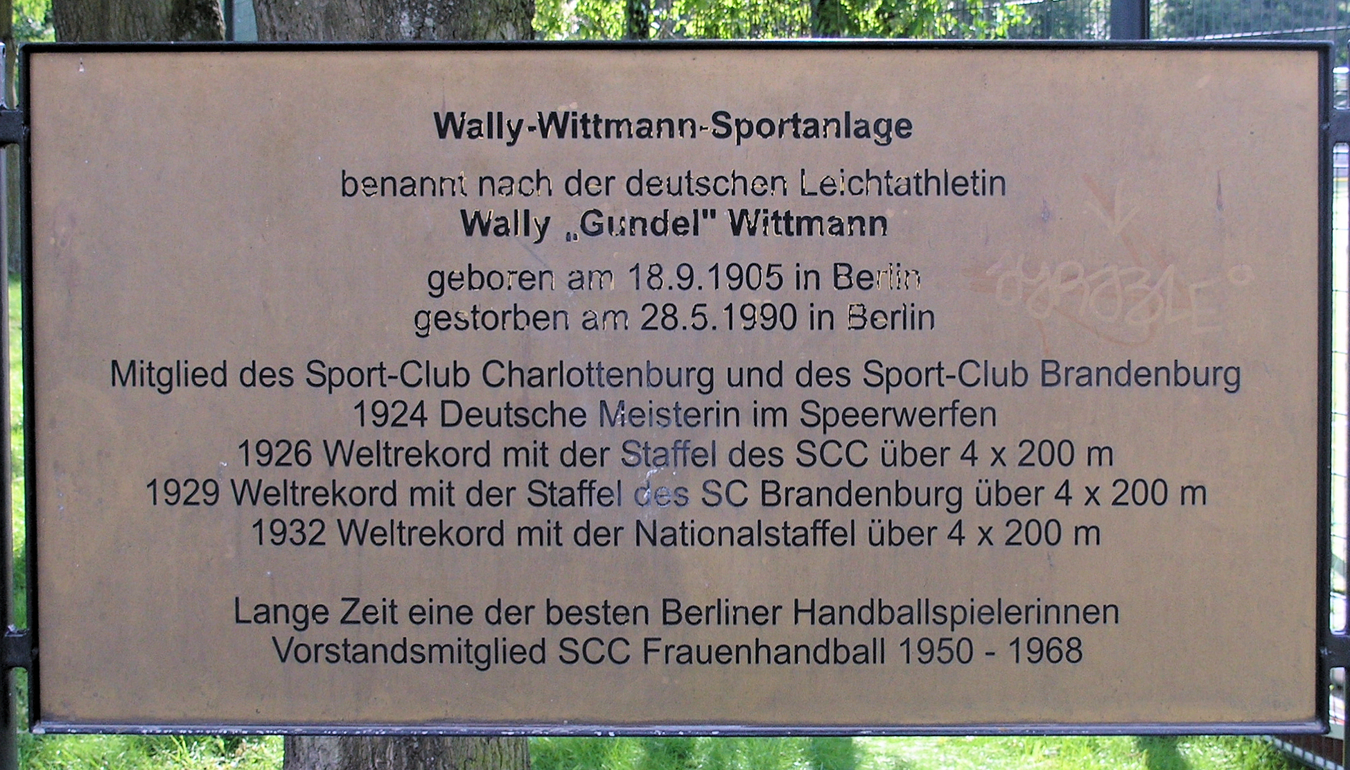 Memorial plaque, Wally Wittmann, Waldschulallee 43, Berlin-Westend, Germany Koordinate:52°30′0″N 13°15′47″E / 52.5°N 13.26306°E